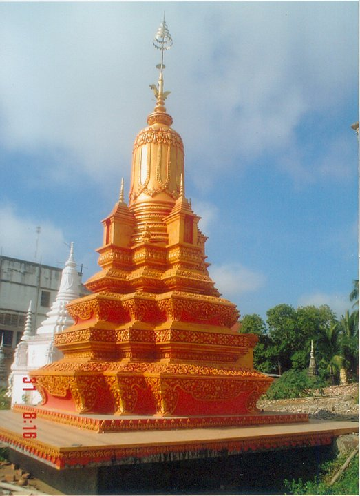 ចម្លាក់ខ្មែរ ម៉ែន សុវណ្ណ​សូមស្វាគមន៍ ! ការសាងសង់របស់ខ្ញុំនៅថ្ងៃទី ២០ ខែ មេសា ឆ្នាំ២០០៧ ព្រះចេតីយព្រះមហាថេរានុរក្ខិត សា សាន (ជោតវណ្ណោ) ព្រះរាជាគណះថ្នាក់កិត្តិយស ព្រះមេគណខេត្តក្រចេះ។ ព្រះតេជគុណគឹជាមេគណខ្ញុំចាប់ពីឆ្នាំ១៩៩១ដល់១៩៩៥ Khmer Sculpture Sovann Men Welcome ! My Building a Stupa of High Priest's Sa San 20/04/2007 He was the chief of me and all buddhist monks in Kratie Province, He was my High priest in 1991-1995 Dimension : 6.00 m * 6.00 m